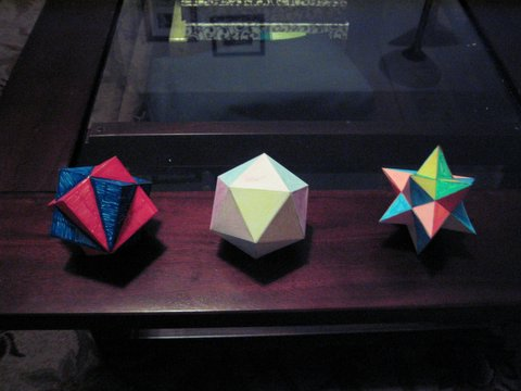 Three paper models of polyhedra. Maureen had to help me gluing the one on the right; my fingers are too fat.